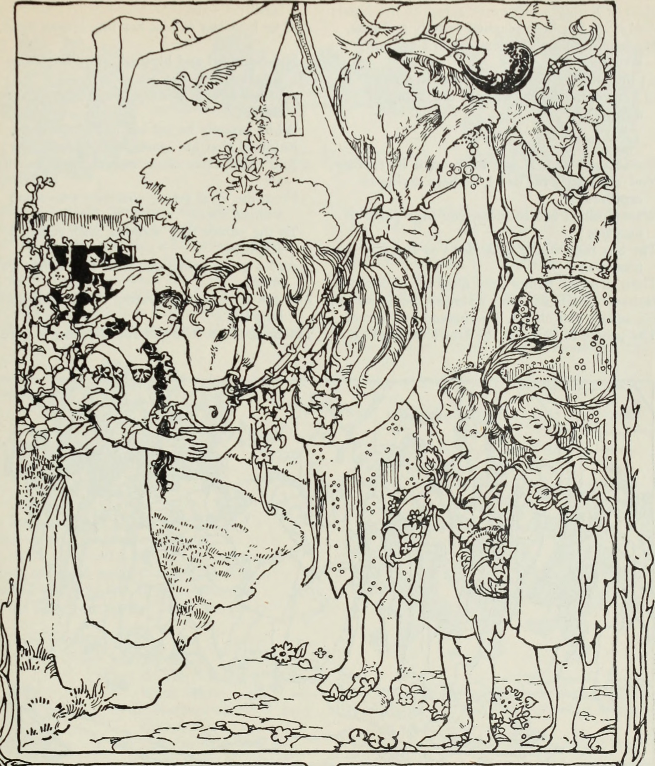 Title: The Bookshelf for boys and girls Children's Book of Fact and Fancy Year: 1912 (1910s) Authors: University Society, New York Subjects: Children's literature Children's encyclopedias and dictionaries Literature Encyclopedias and dictionaries Publisher: New York. : University Society Text Appearing Before Image: ed every dayAt some humble cottage along the highway,And begged for his horse the scraps of rich doughWhich all the fair cooks seemed so glad to bestow;But, spite of his courtiers nudges and winks,Preserved his own counsel, close-mouthed as a sphinx;While each damsel tried, as a matter of pride,To see who the largest amount could provide.And his horse, which seemed to approve the whole matter,Kept on every day growing fatter and fatter. Some weeks had thus passed when the caval-cade stoodIn front of a house at the edge of a wood,From whose shadows came tripping a shy little maid.Abashed by the splendor before her displayed.She heard with surprise the kings usual ques-tion,And gasped with dismay at the very suggestion.The scrapings of dough? I m sorry it s so,But I never have even a crumb left, you know:My mother has taught me it s wicked to wasteThe least little fragment of pie-crust or paste. I measure with care the smallest ingredient,To make the amount which she thinks isexpedient. Text Appearing After Image: '